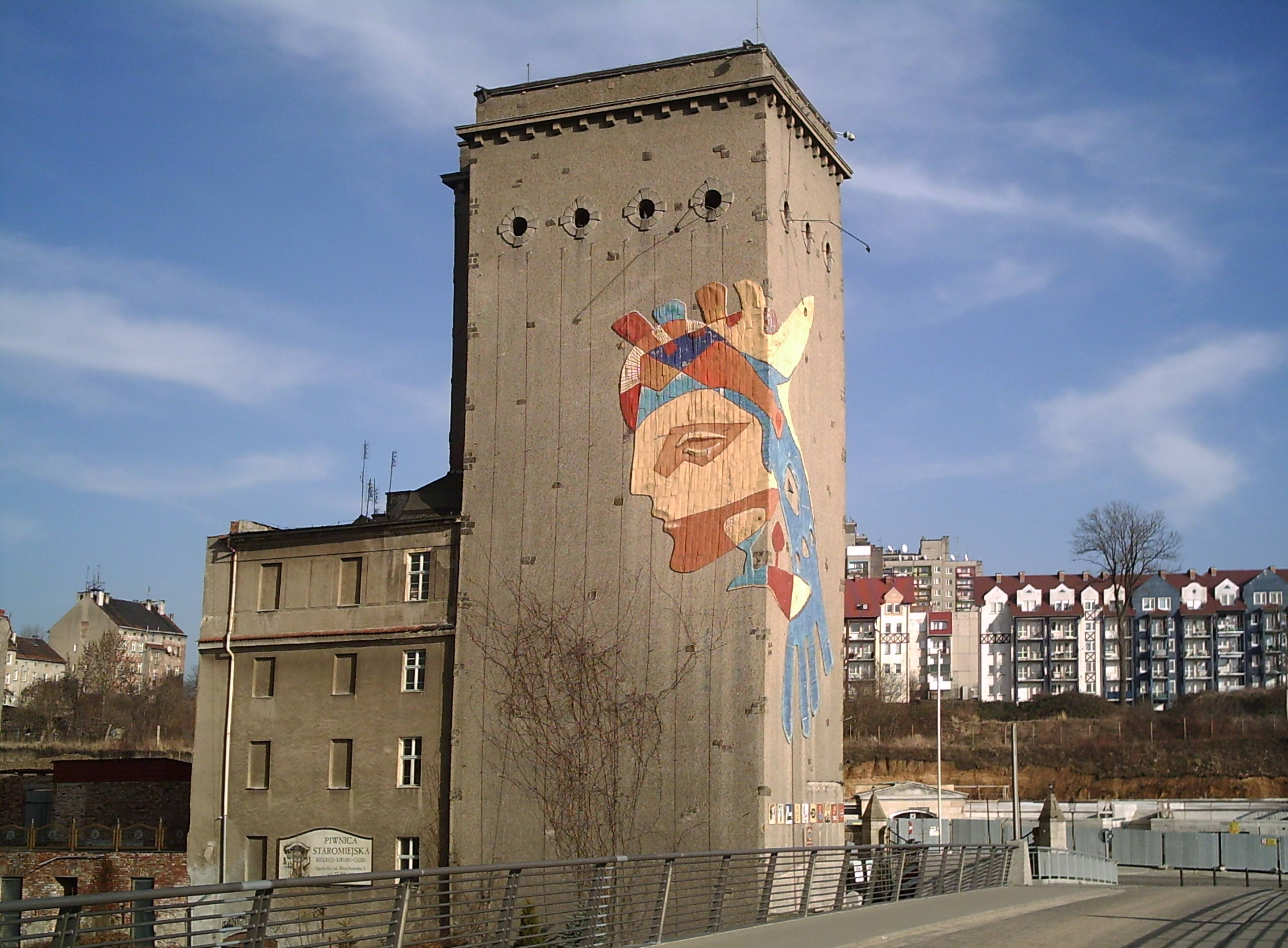 W.A.Z.E in Zgorzelec, Poland. Vahan Bego